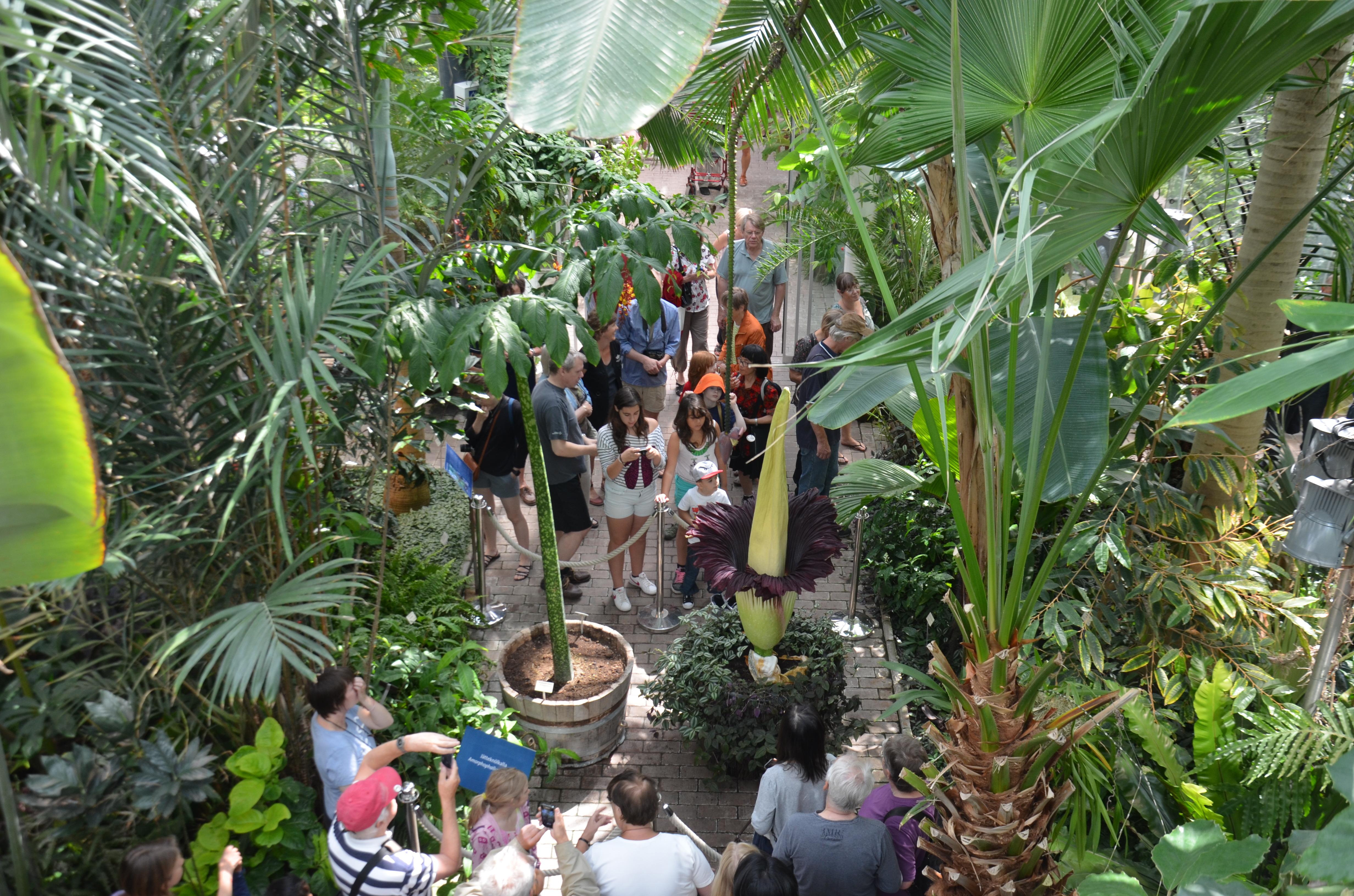 Amorphophallos titanum at Bergianska trädgården 10 July 2013. Leaf of Cronos to the left, floer of Crius to the right.